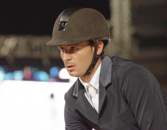 Steve Guerdat, Global Champions Tour of Cannes, june 2012.